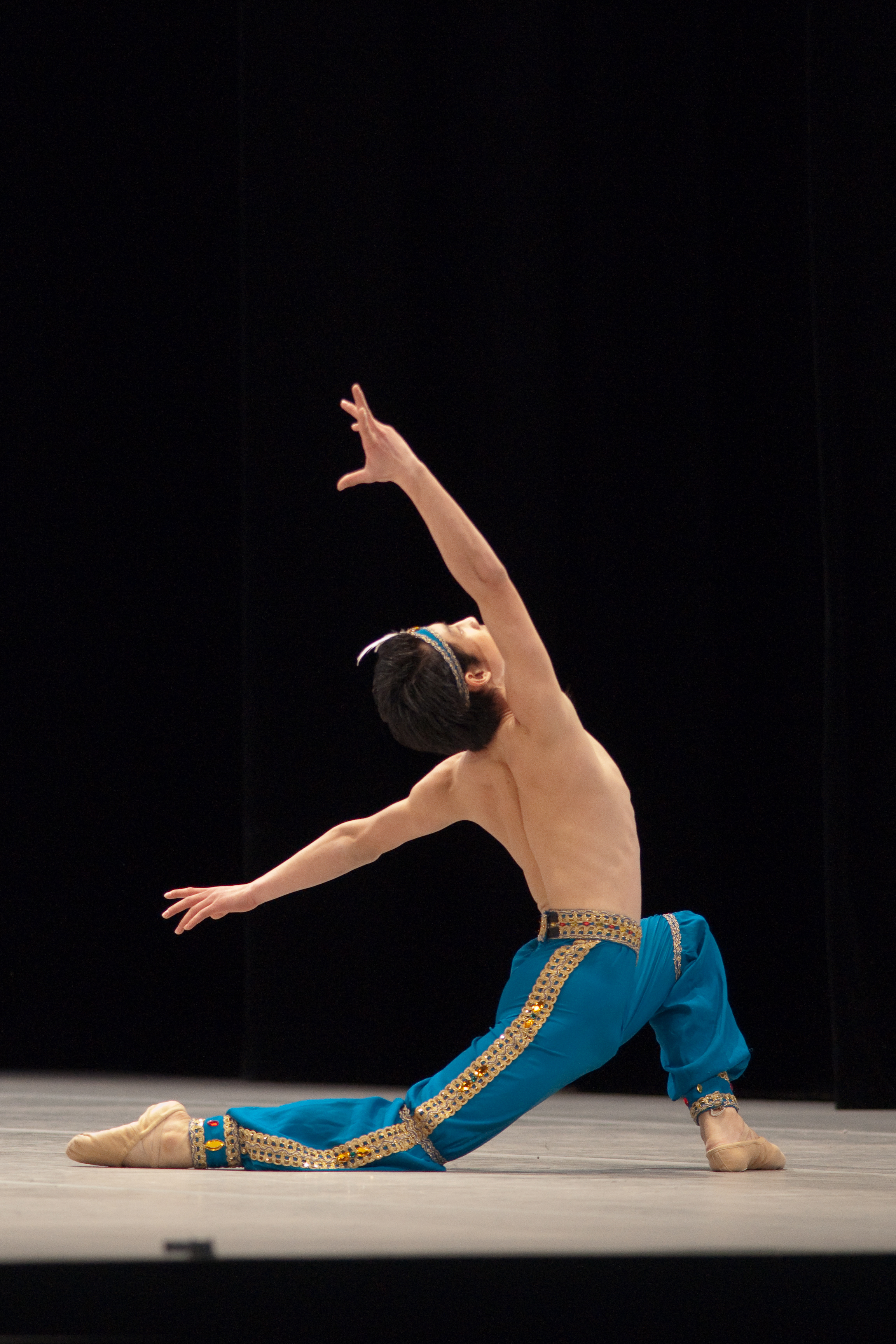 The making of this document was supported by Wikimedia CH. (Submit your project!) For all the files concerned, please see the category Supported by Wikimedia CH.